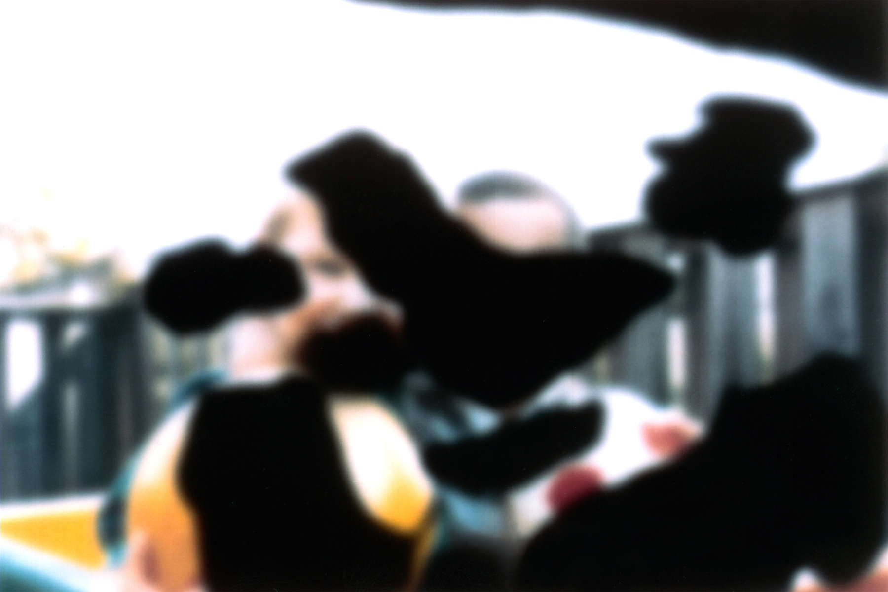 A scene as it might be viewed by a person with diabetic retinopathy.